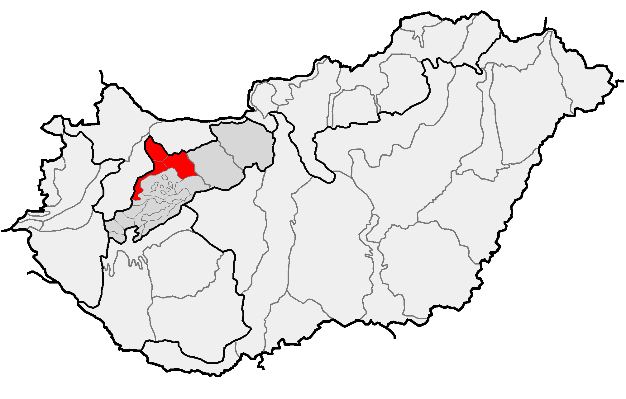 Location of geographical subregion of Bakonyalja (red) and macroregion of Dunántúli-középhegység (gray) within subdivisions of Hungary.